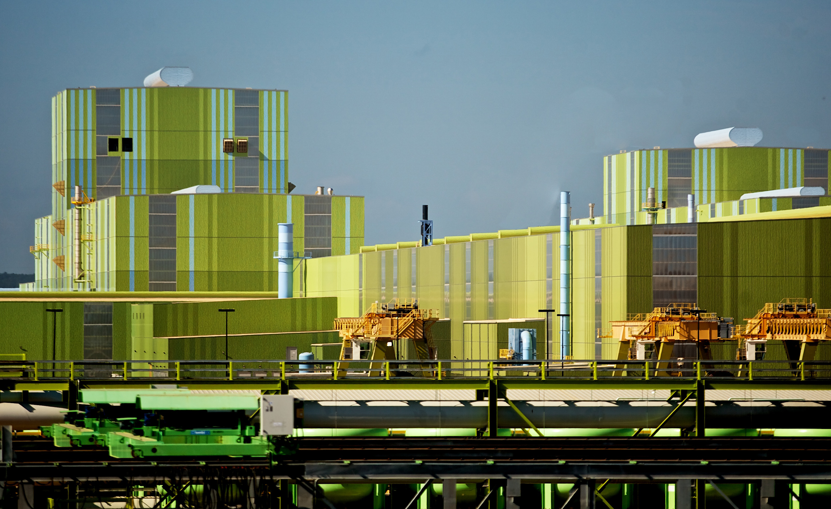 A view of AM/NC Calvert's hot dip galvanizing lines in Calvert, Alabama.